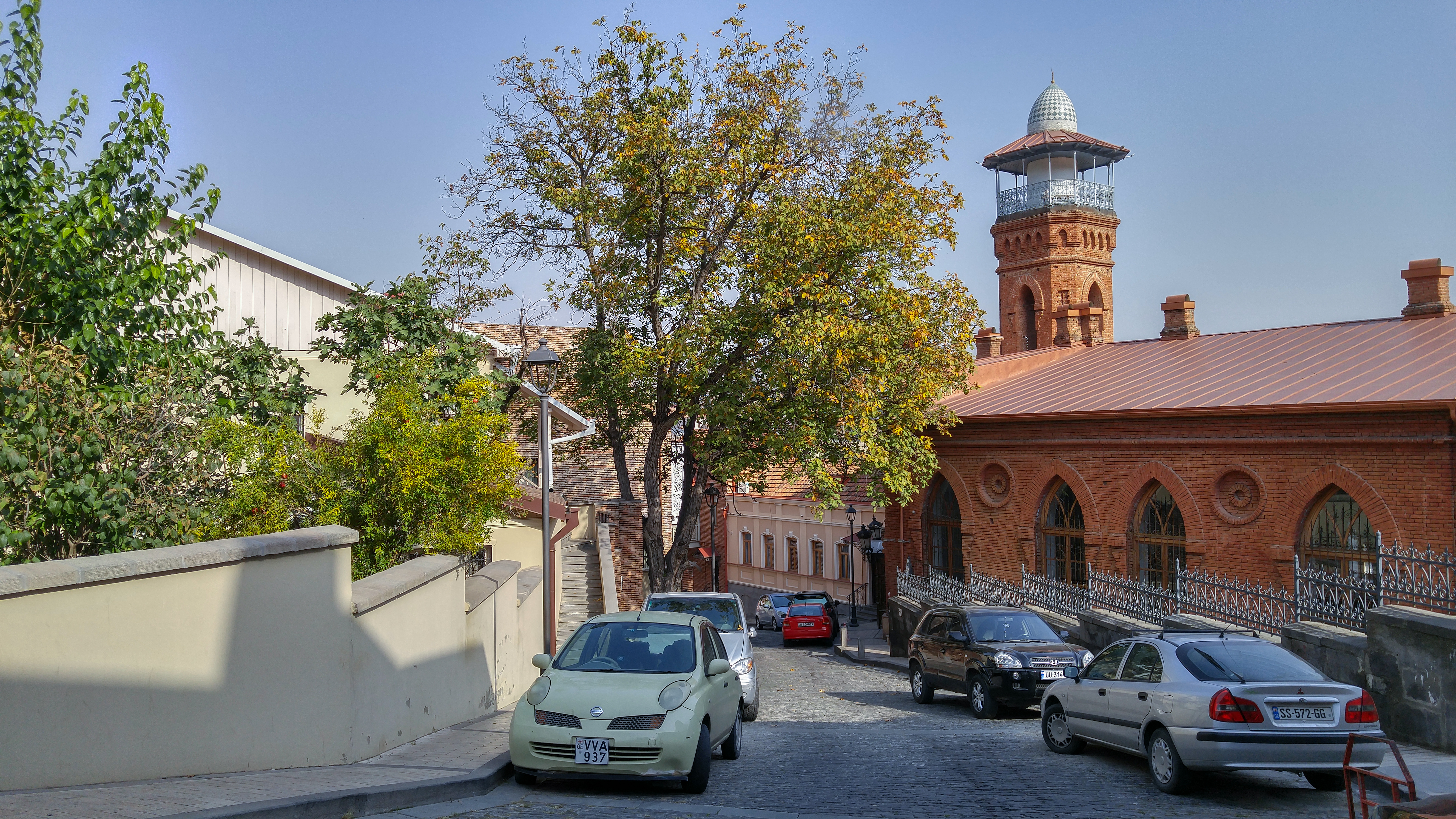 Islam in Georgia was introduced in 645 AD during the reign of third Caliph of Islam, Uthman. During this period, Tbilisi (al-Tefelis) grew into a center of trade between the Islamic world and northern Europe.